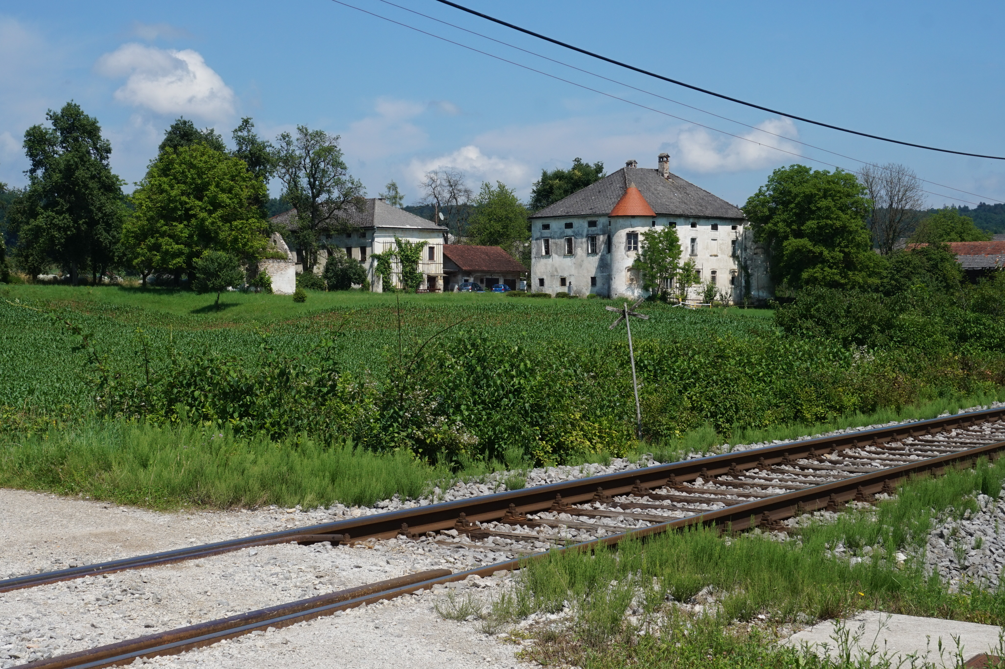 Praproče Manor in Praproče pri Grosupljem, Slovenia